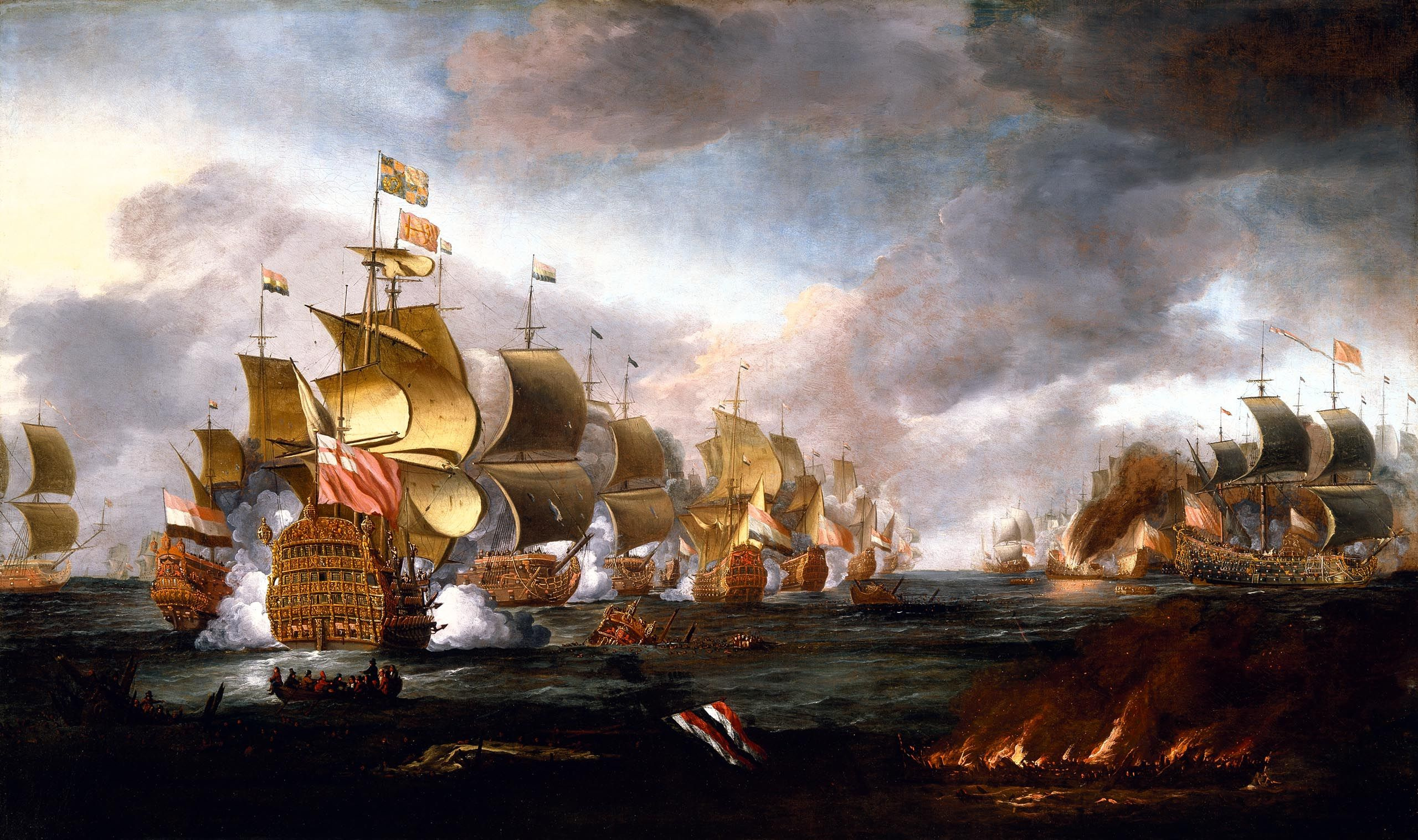 The Battle of Lowestoft, 3 June 1665: Engagement between the English and Dutch Fleets.